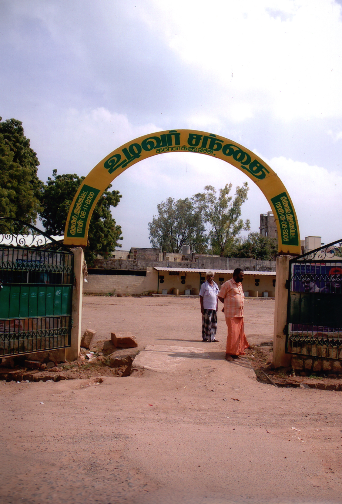 This is picture of a vegetable market in Kallakurichi.